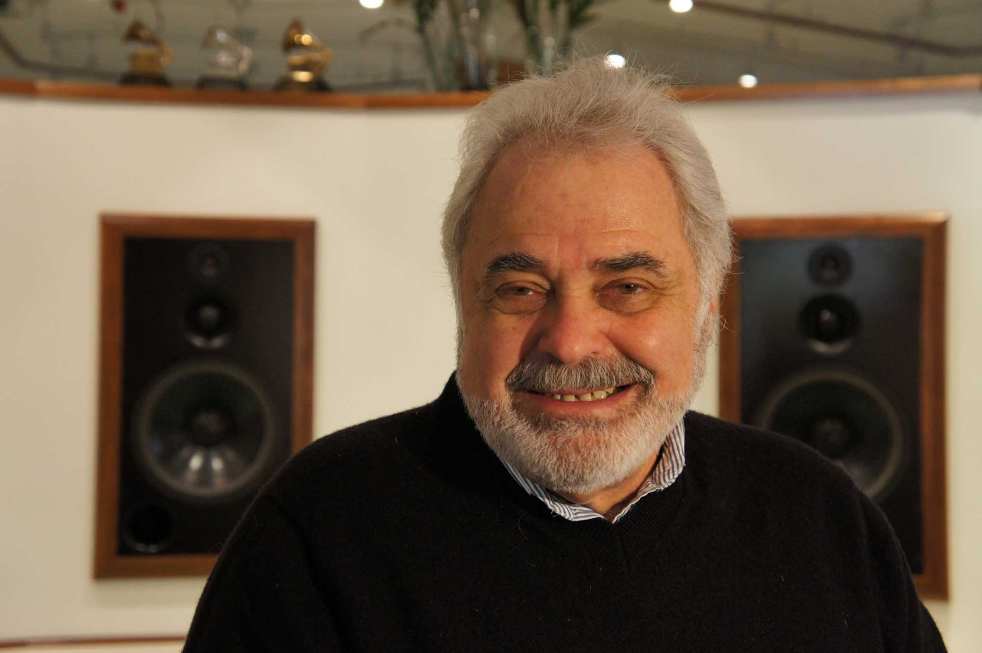 Doug Sax